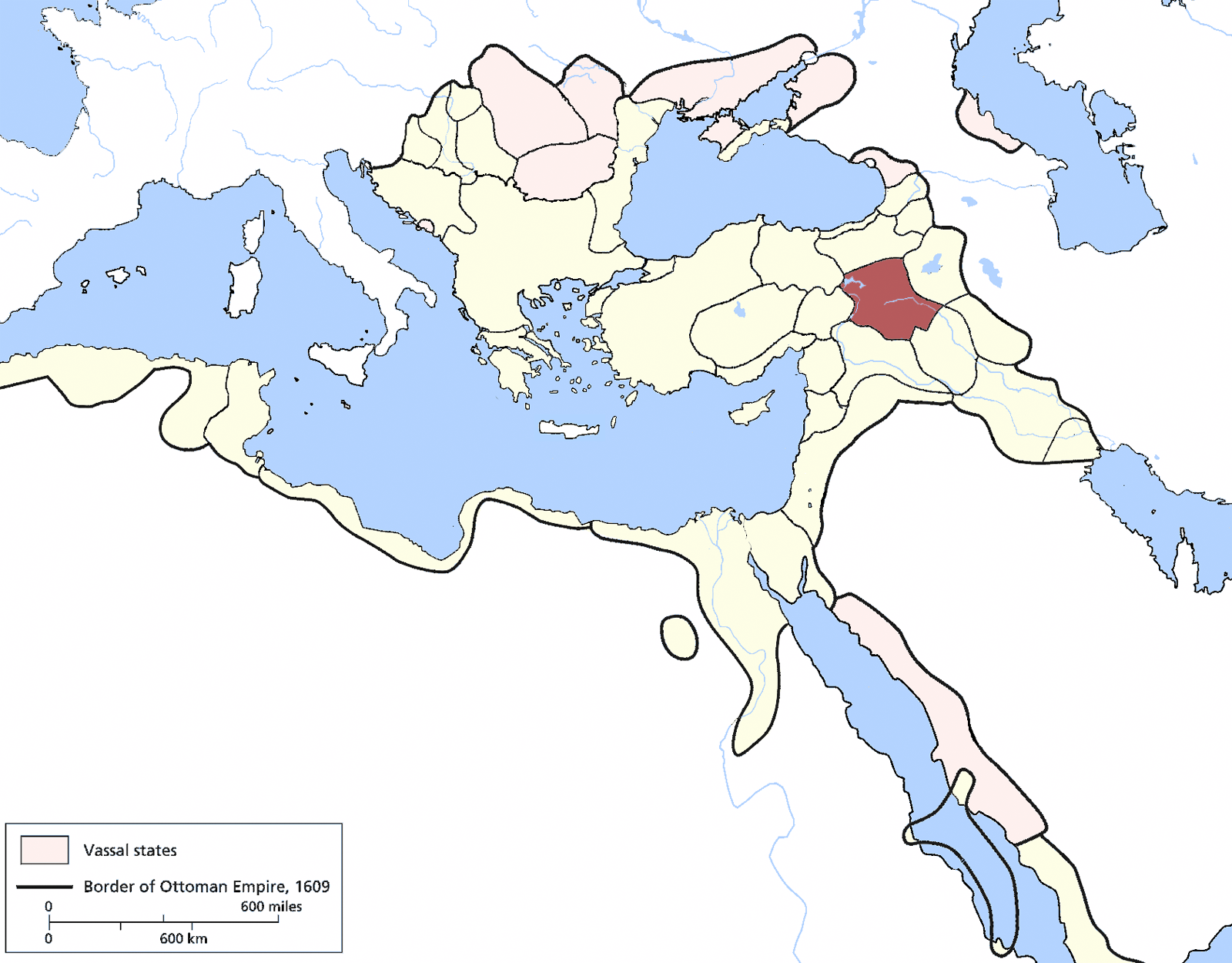 Diyarbarik Eyalet, Ottoman Empire (1609). Source: Encyclopedia of the Ottoman Empire at Google Books By Gábor Ágoston, Bruce Alan Masters